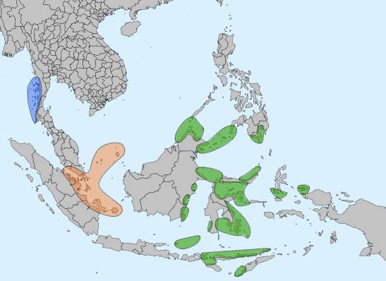 Distribution of three different peoples usually called as "Sea Nomads" or "Sea Gypsies": Blue: Moken Orange: Orang Laut Green: Sama-Bajau